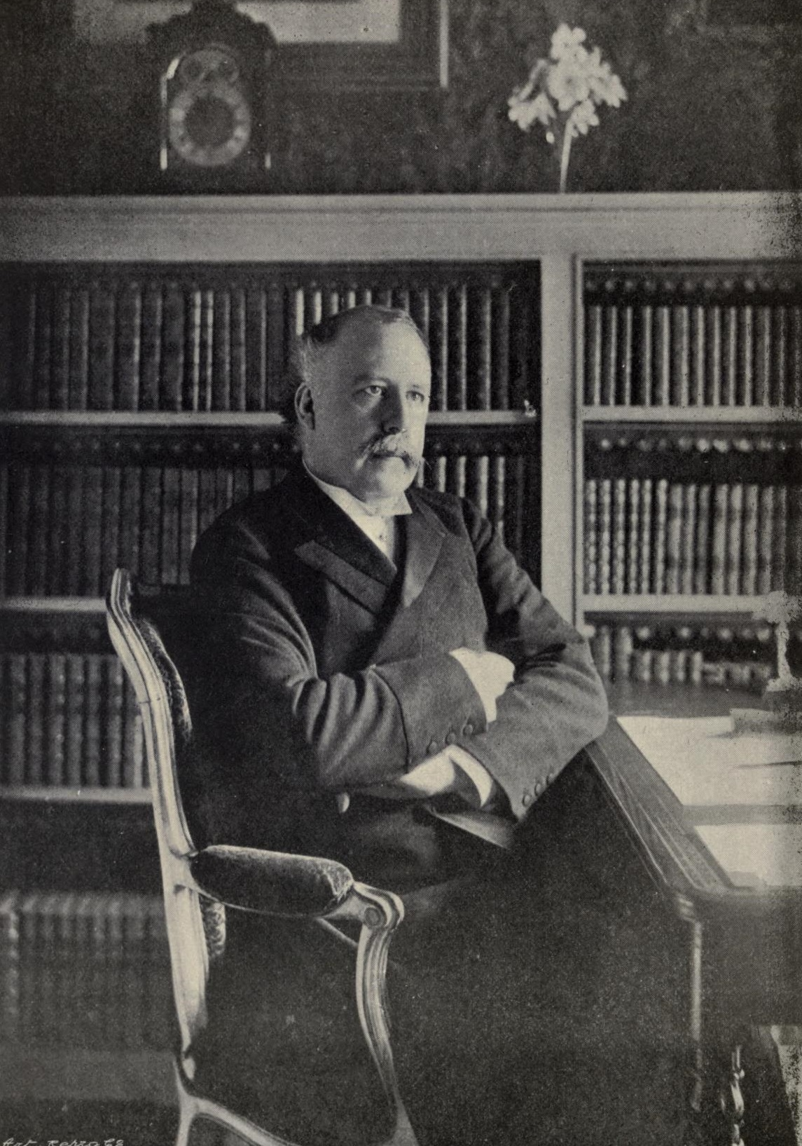 Picture of George W. E. Russell